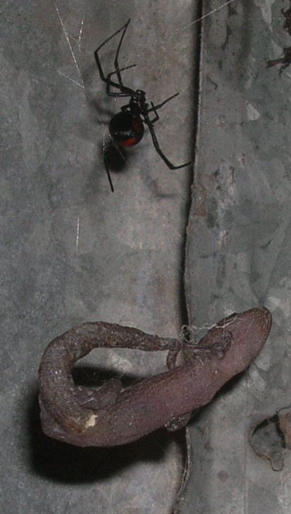 Spider hauling a lizard up into its lair